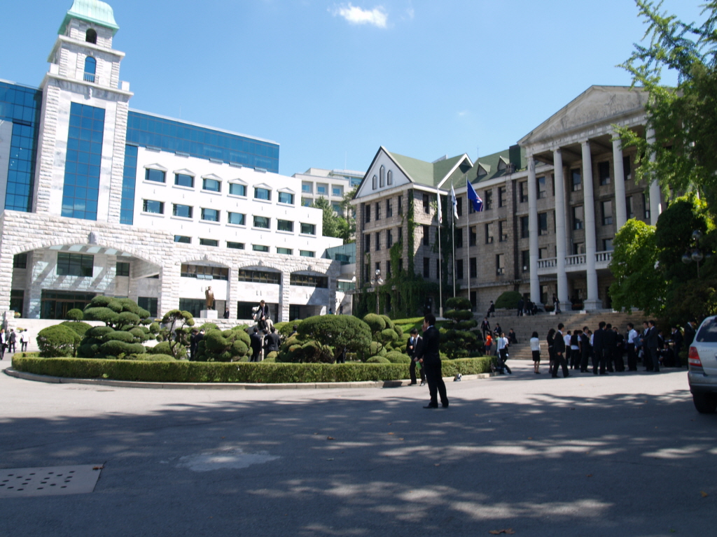 Administration Buildings. Hanyang university